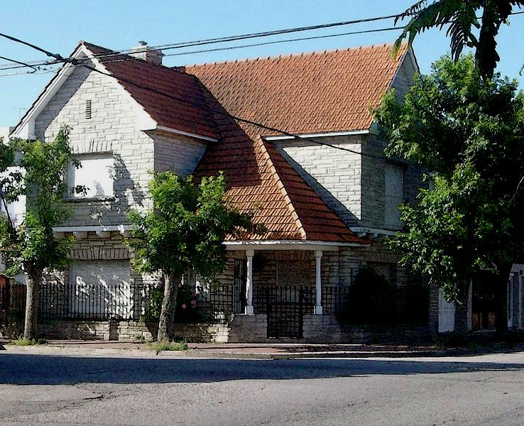 Example of Mar del Plata style.